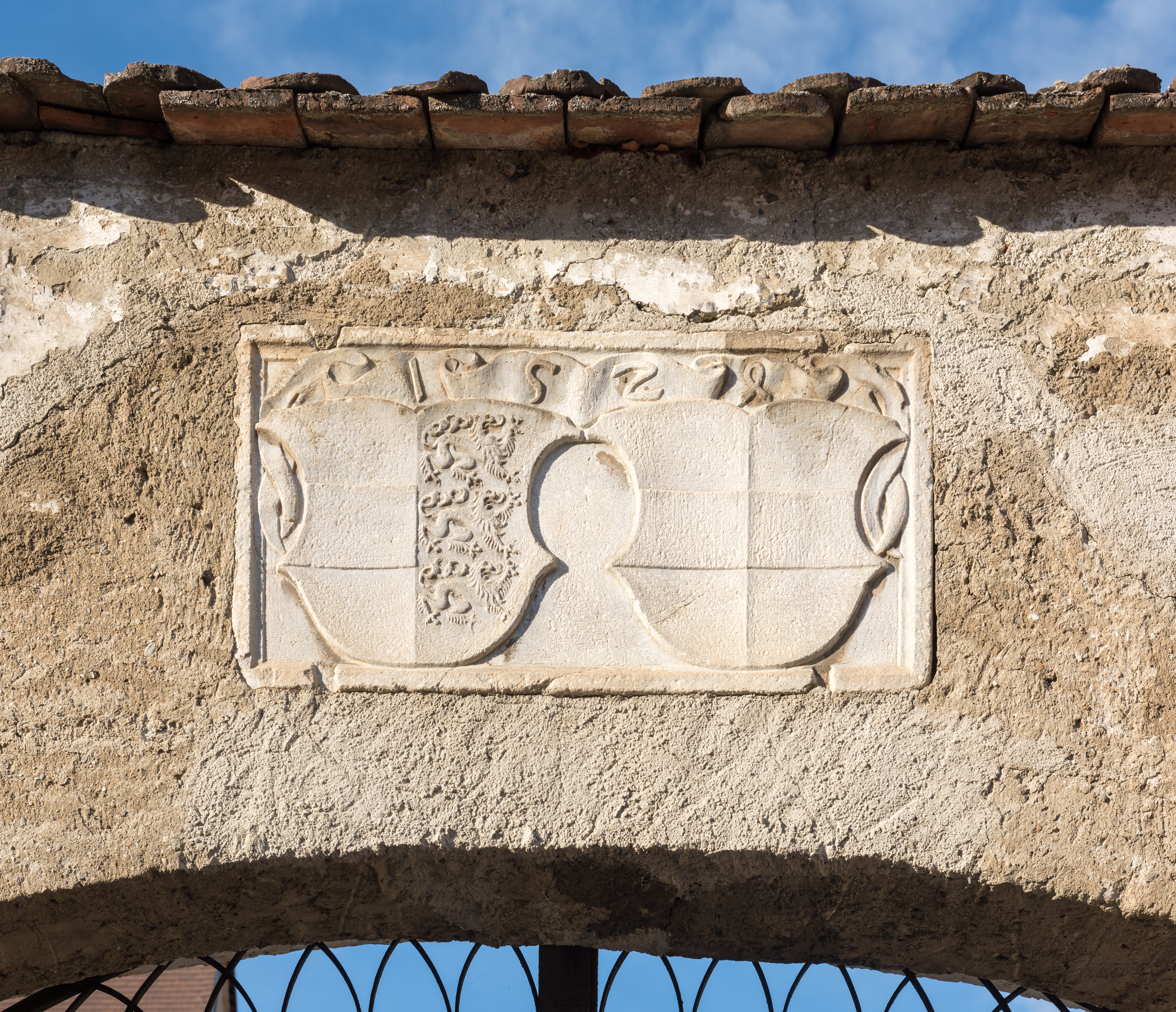 Stone relief of the state coat or arms and privilegium maius at the overdoor of the dukes` castle on Burggasse #9, city of St. Veit an der Glan, Carinthia, Austria, EU